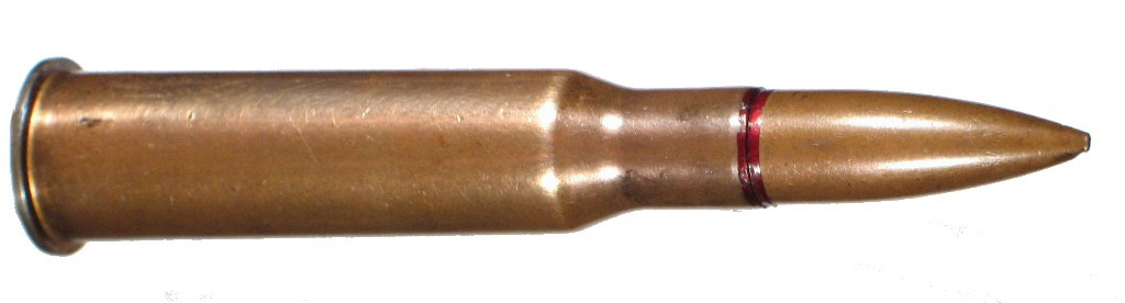 7,62x54mm R (Mosin Nagant), self shot photograph June 2006